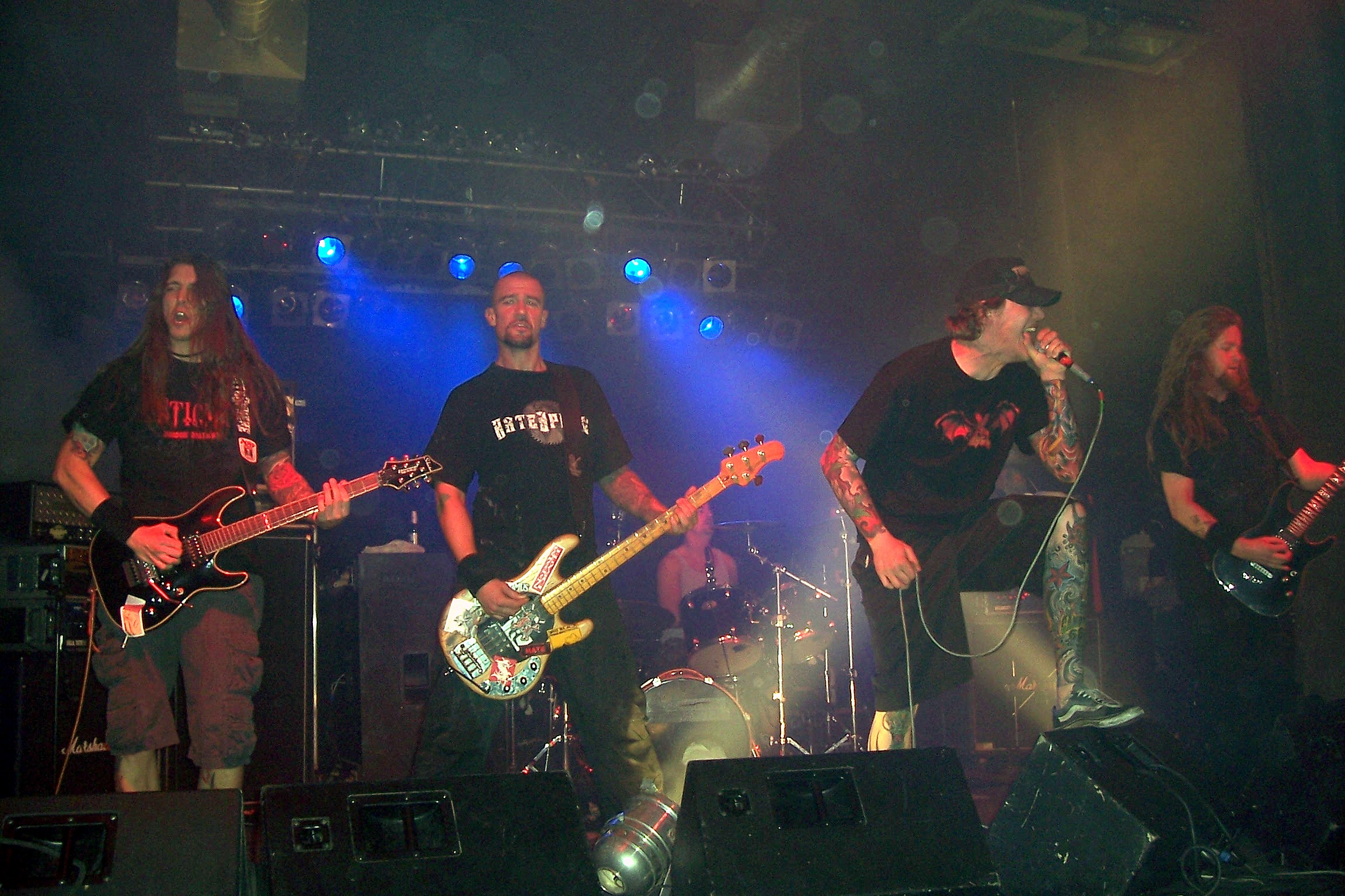 Hatesphere, Berlin (Columbia Club) 28.02.2005